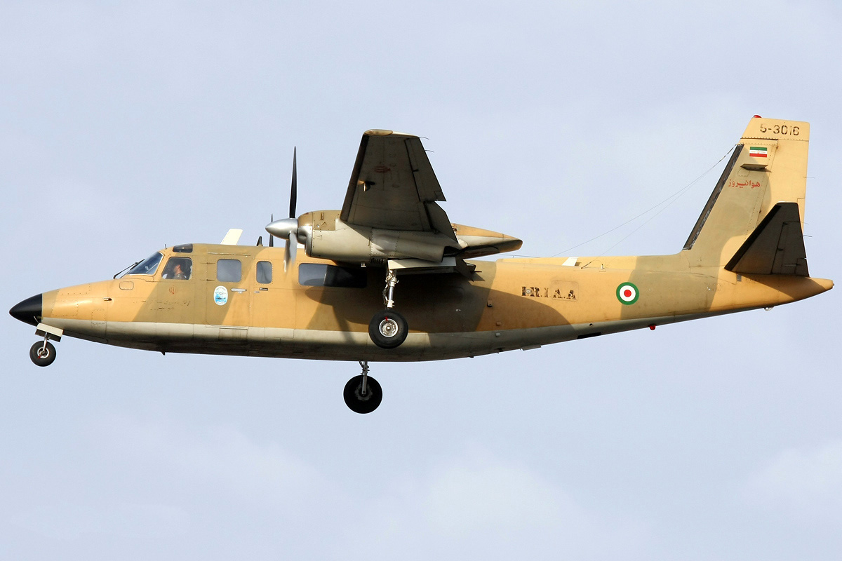 An Aero Commander 690A of The Islamic Republic of Iran Army Aviation.